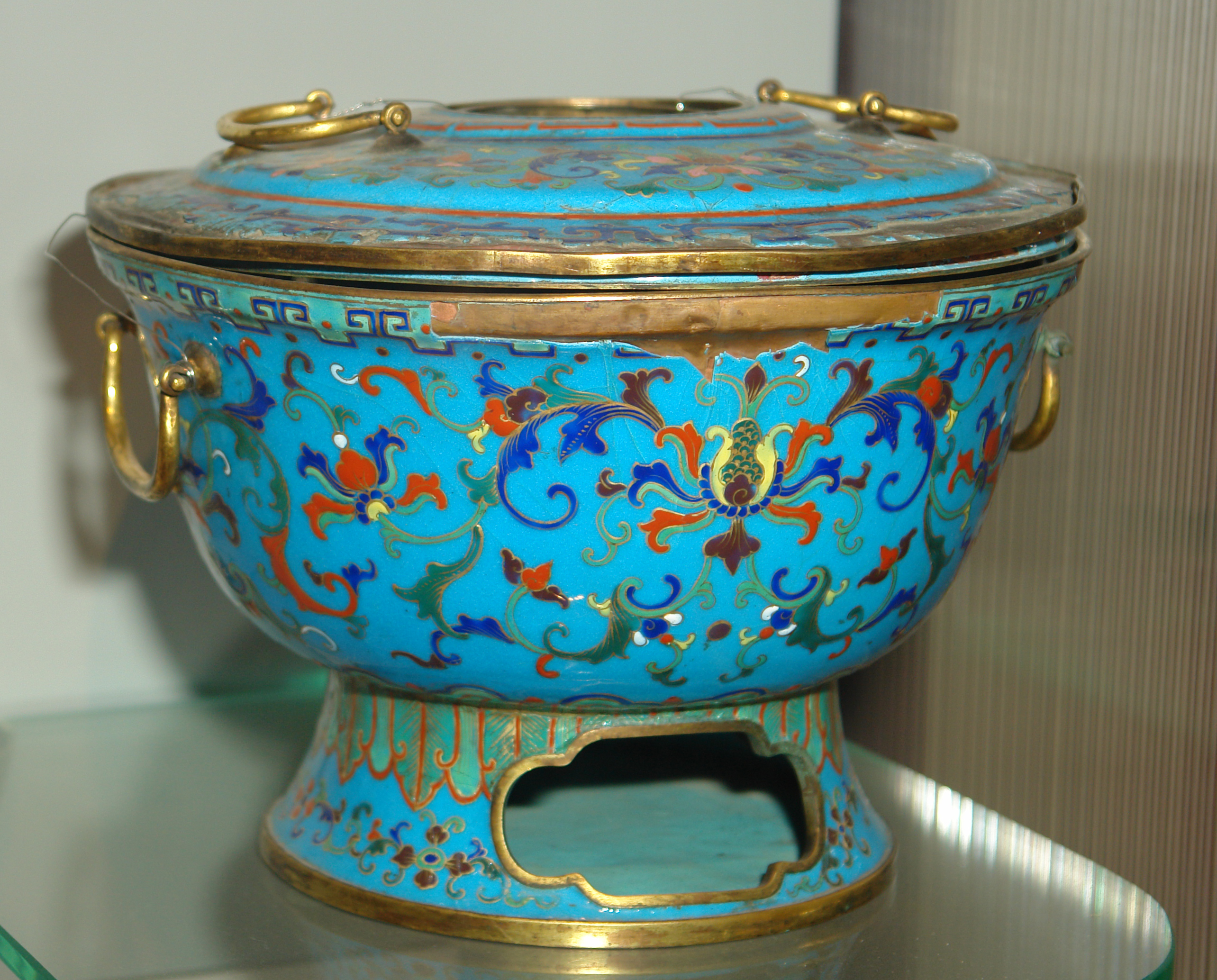 Ho-go Unknown workshop. China, Late 19th cent. Copper. enamel